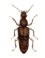 Rugilus rufipes, from Calwer's Käferbuch, Table 12, Picture 13. Taxonomy was updated to 2008, using mostly the sites Fauna Europaea and BioLib. Please contact Sarefo if the determination is wrong!